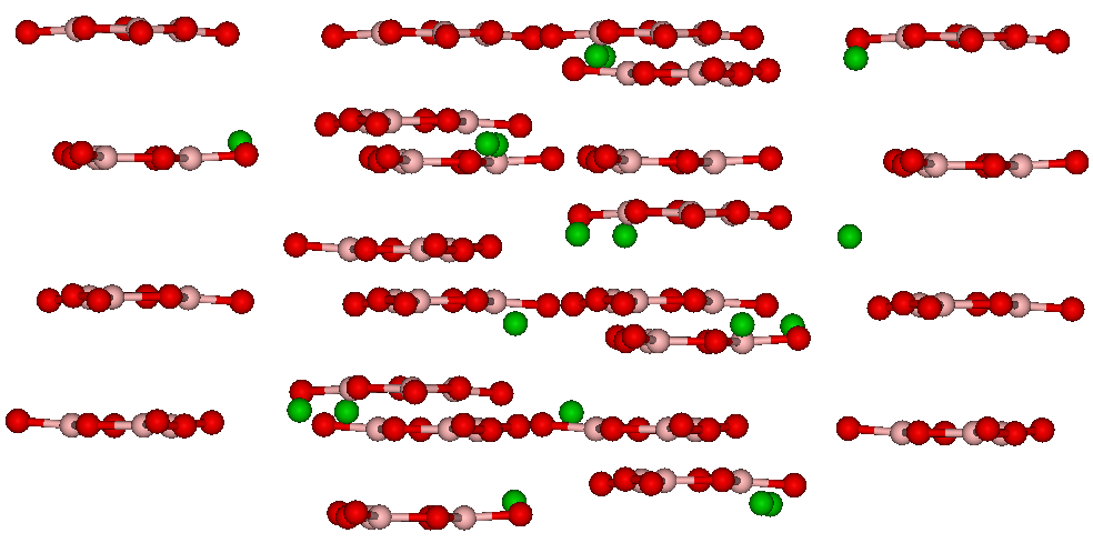 Crystal structure of β-BaB2O4 (BBO) viewed nearly perpendicular to the c-axis. Colors: green - Ba, pink - B, red - O. "Thermal Expansion of the Low-Temperature Form of BaB2O4". Journal of the American Ceramic Society 73 (8): 2526–2527year= 1990.